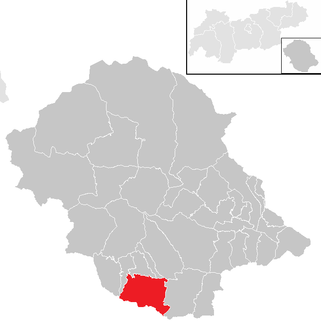 District Lienz